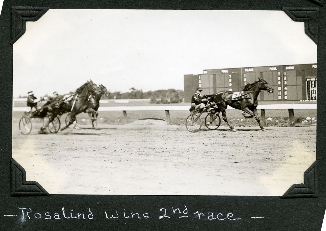 Rosalind winning her second start, the American Stake (driven by T. Berry), in 1935